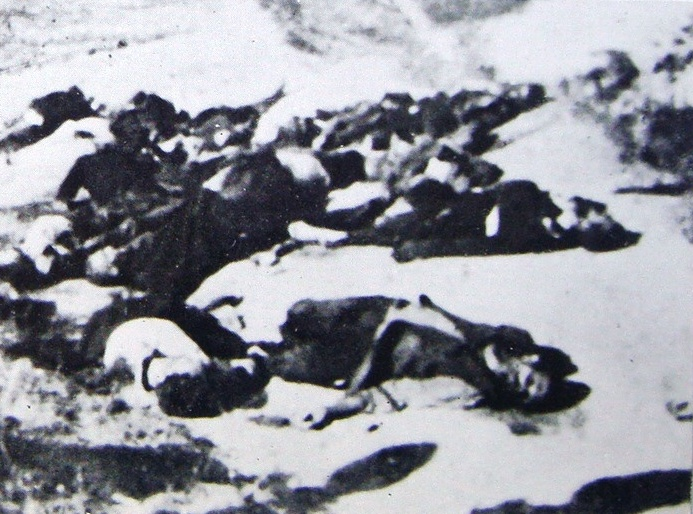 Mass execution of Macedonians in the Dabnica village, Prilep. In the massacre died 18 people. (19 September 1942) This media file is produced by Wikipedian in Residence in Category:Wikipedian in Residence at DARM in 2016.